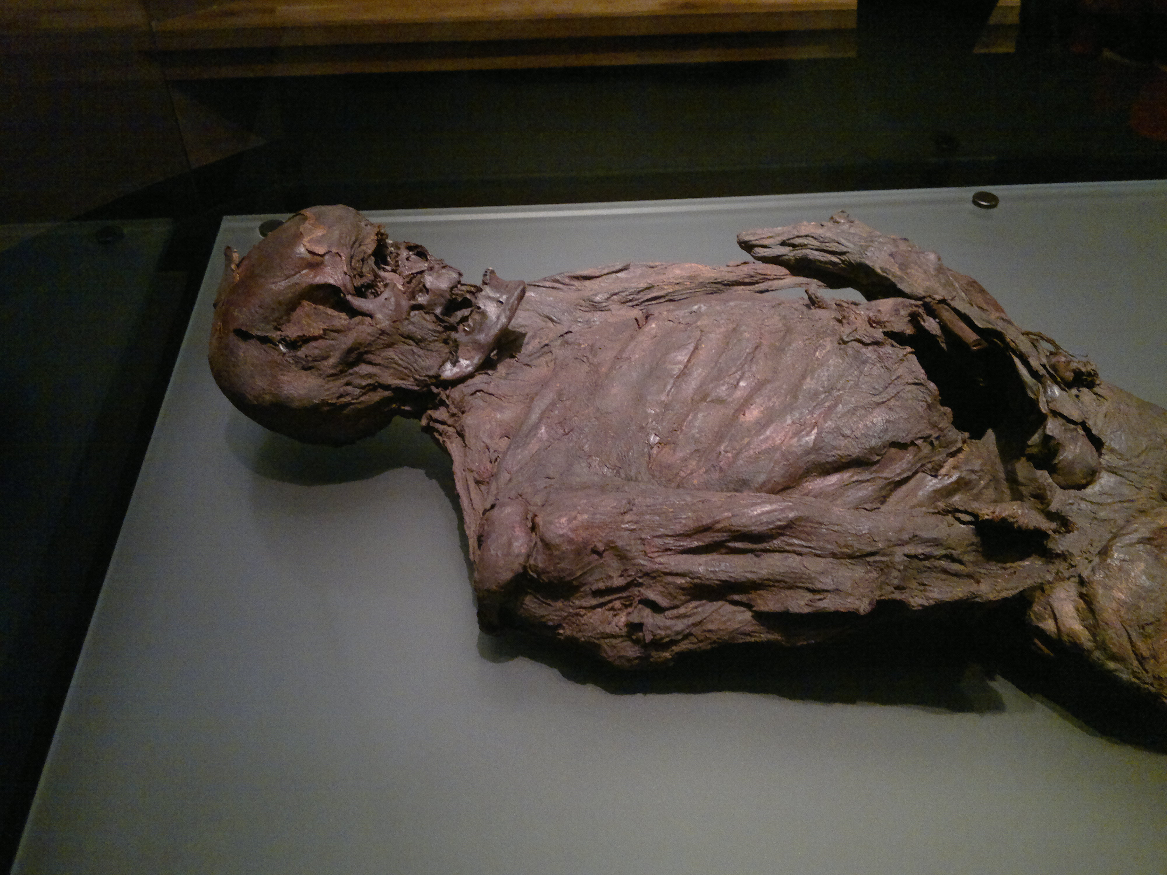 The "Galagh Man", a bog body discovered in 1821 on display in the National Museum of Ireland, Dublin.